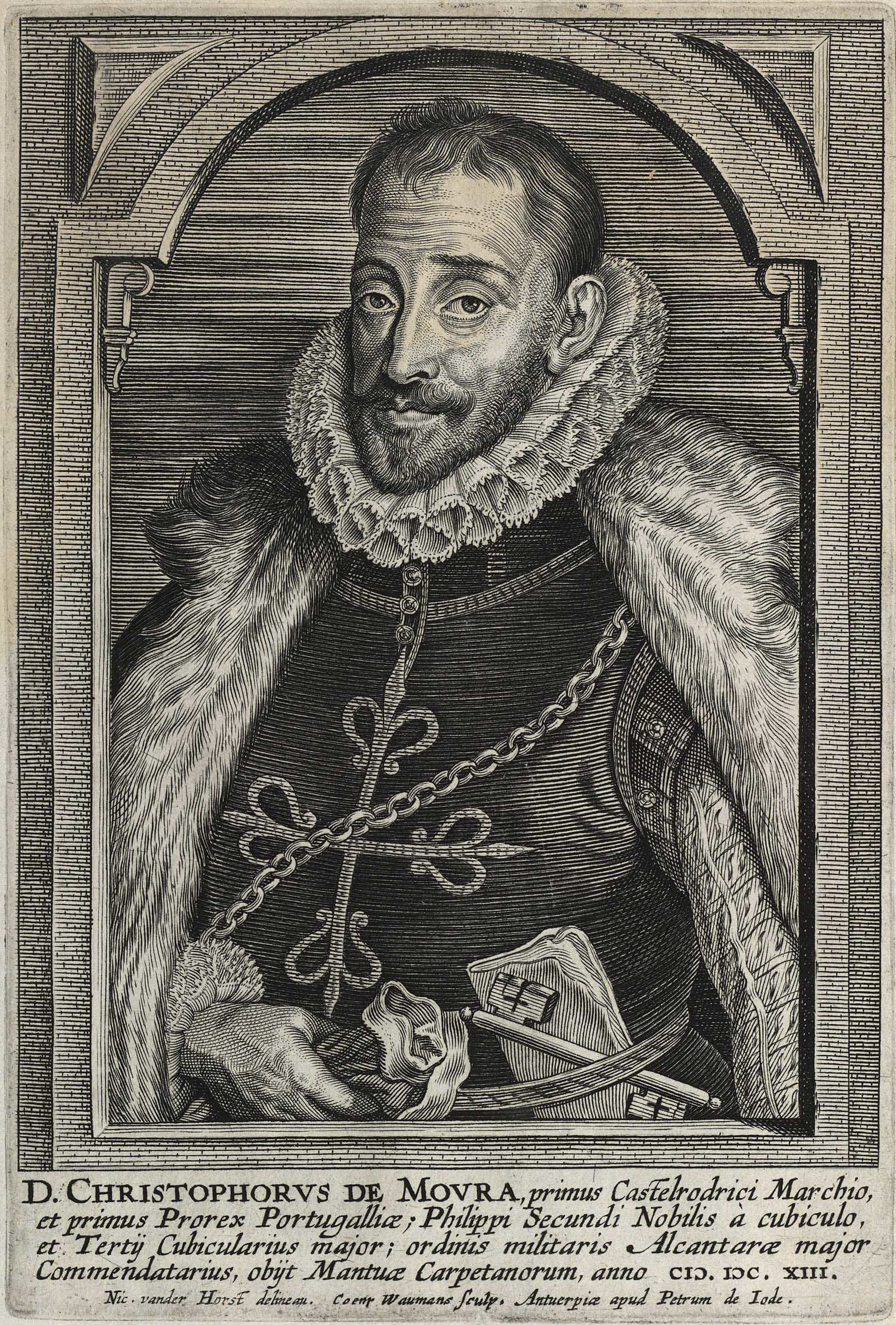 Cristóvão de Moura e Távora (1538-1613), a Portuguese aristocrat who partied with the Spanish during the 1580 succession crisis.